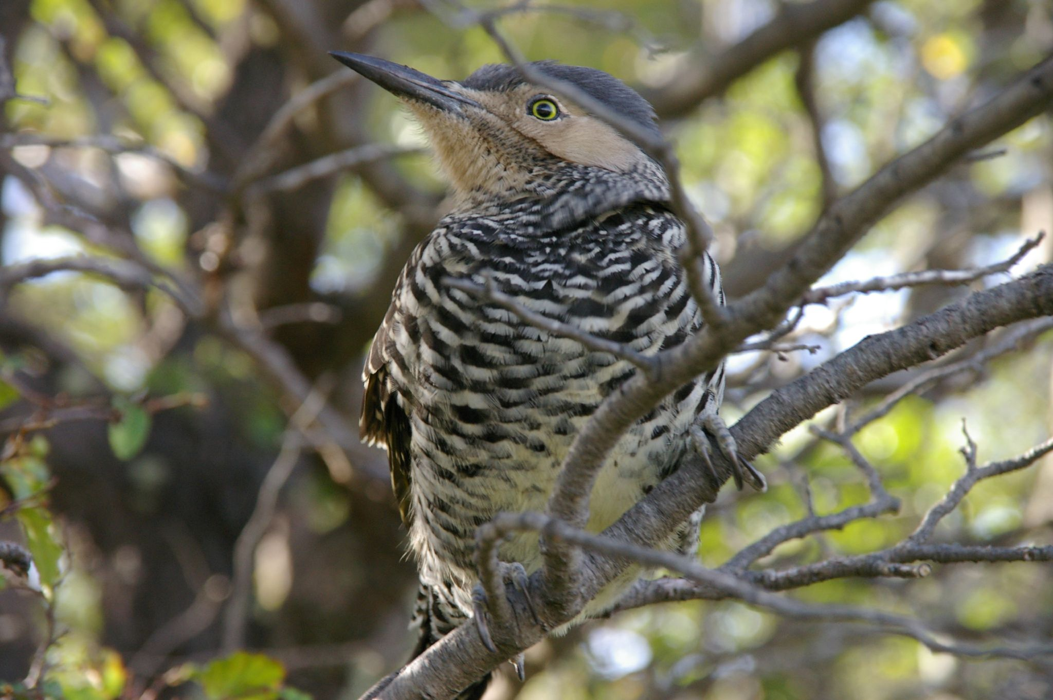 Chilean Flicker, Torres del Paine National Park, Chile.